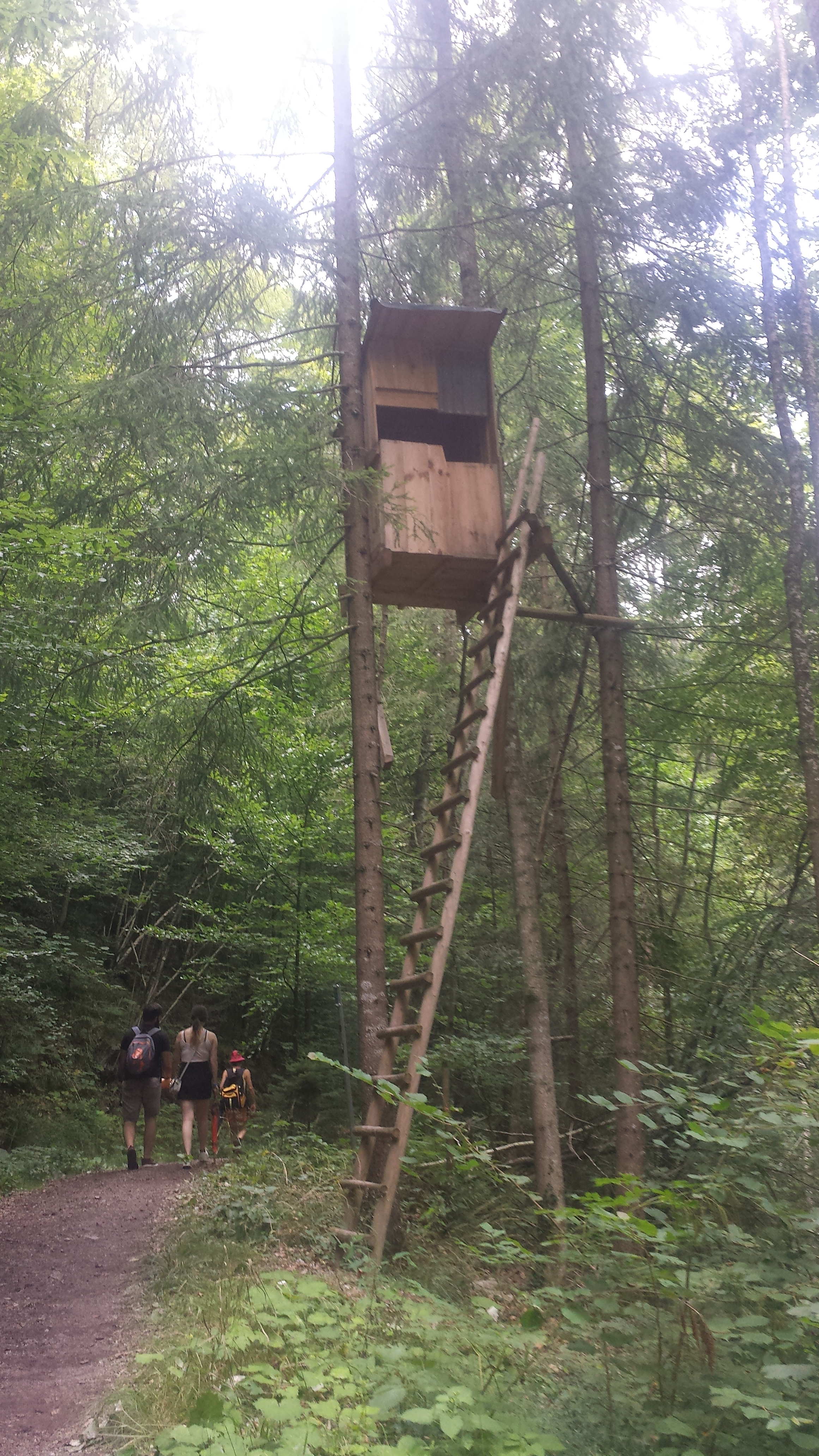 Climbing tree stands, hunting. Slovenija, Lučine.